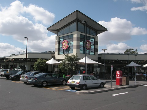 Shopping centre in Pemulwuy NSW